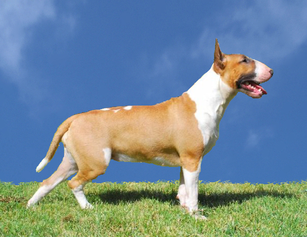 bull terrier,female bull terrier